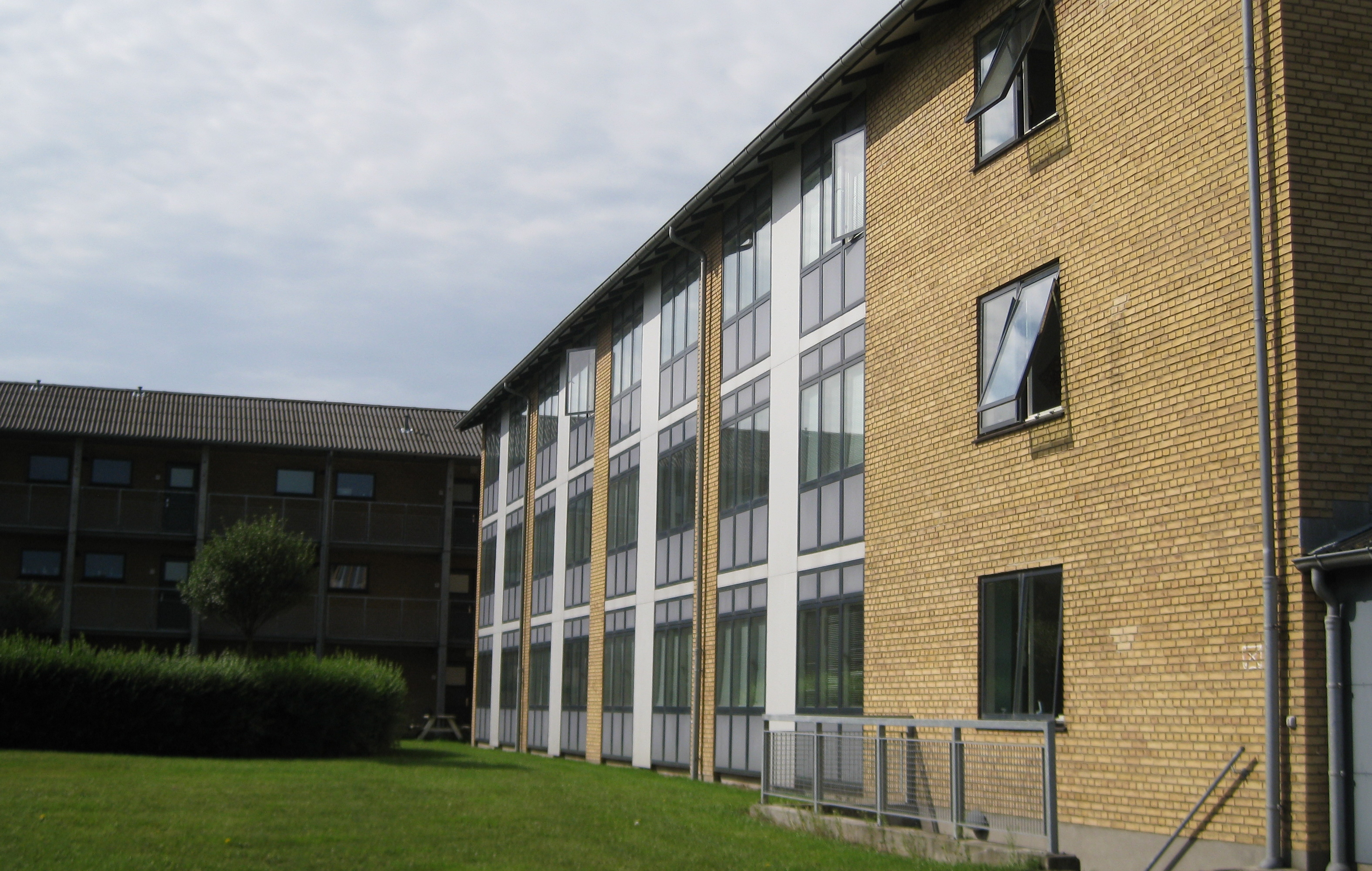 Ungdomskollegiet, Sønderborg, Denmark